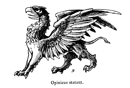 An opinicus, heraldic beast.